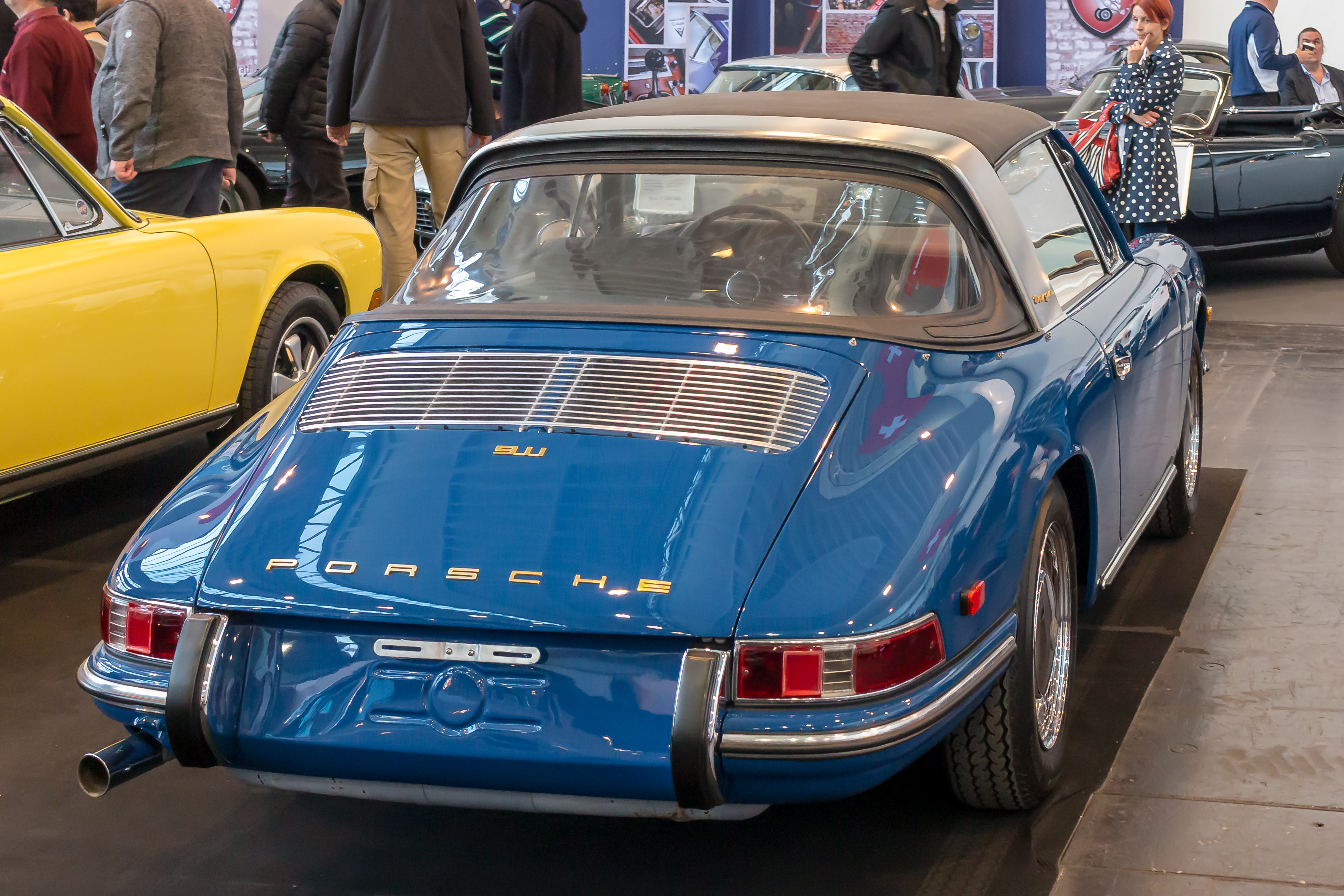 Porsche 911 Targa at Techno-Classica 2018, Essen